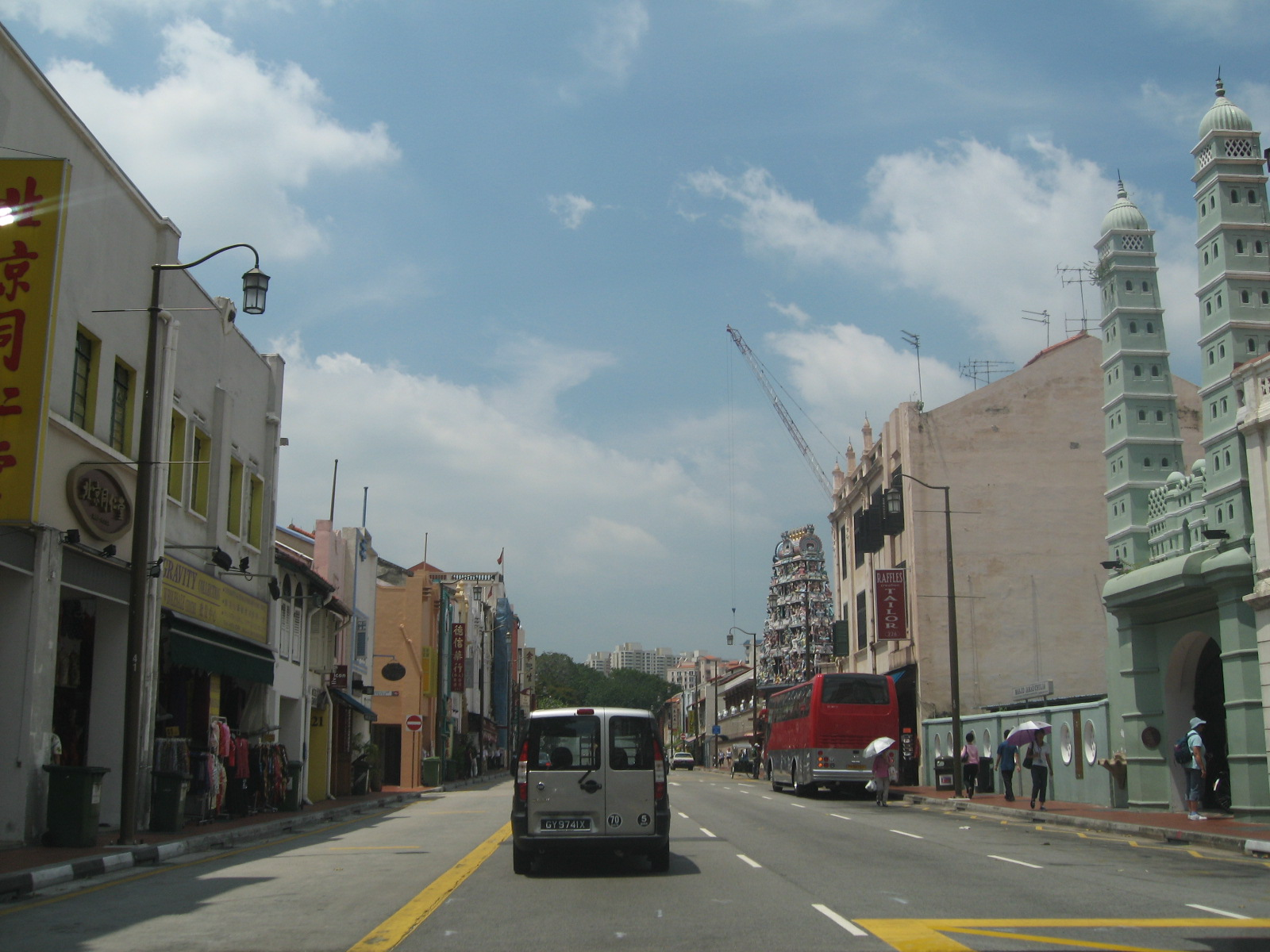 South Bridge Road.